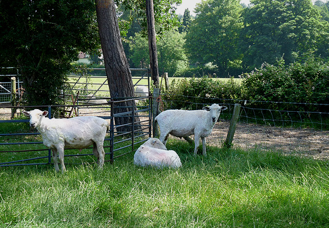 Sheep-shearing 3(b): thoroughly shorn These Lincolnshire Longwool rams belie their name now that they've been shorn within millimetres of their skin. They look a bit disorientated but they'll soon be out in the pastures such as the one in the middle distance. For the whole series summarised, see 6975792 or for members